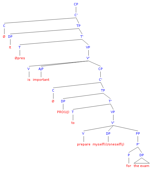 This is a syntactic tree diagram of the sentence "It is important to prepare myself/oneself for the exam" in order to show the relation of PRO ('big pro') to a anaphor.